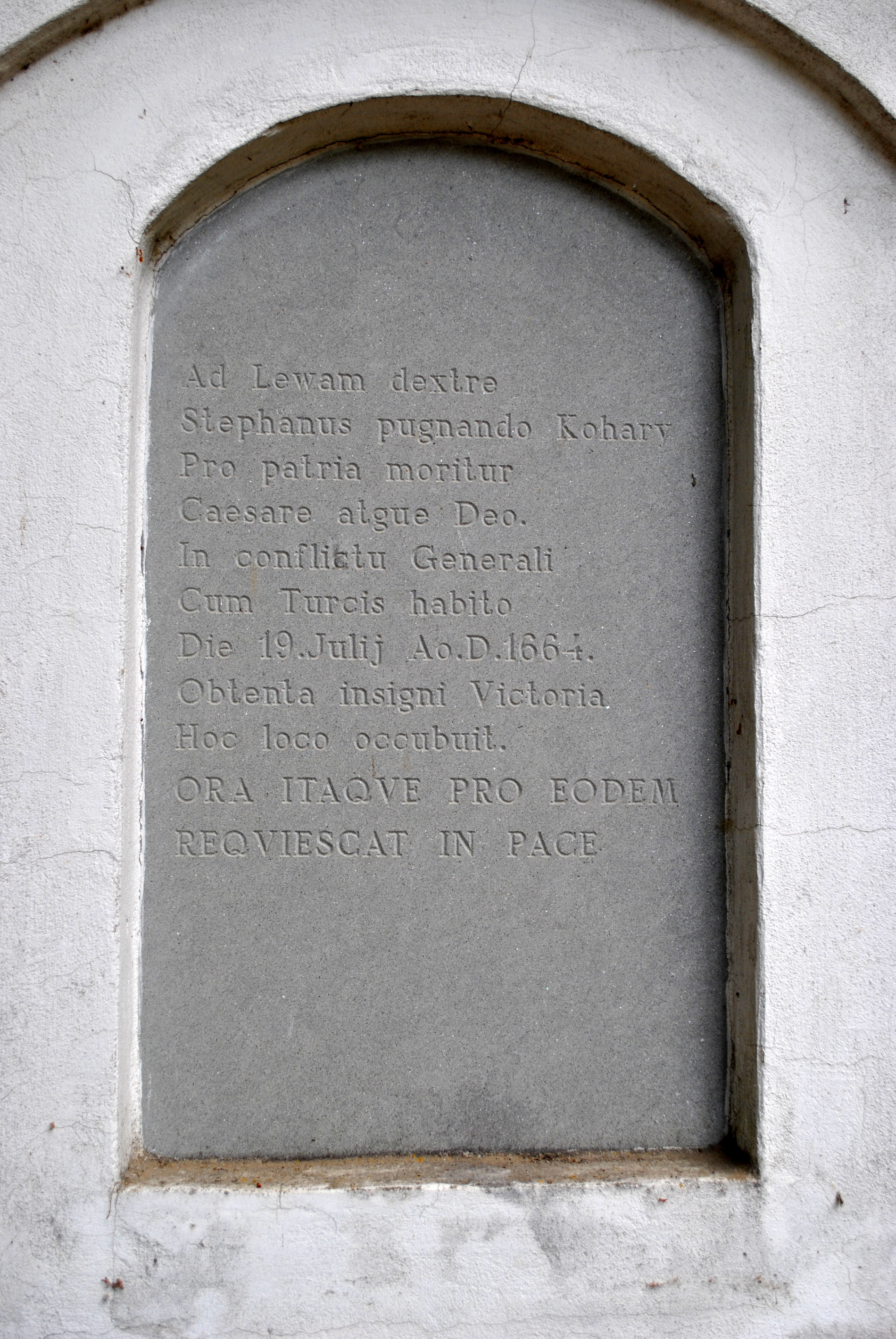 Memorial of István I Koháry in Levice